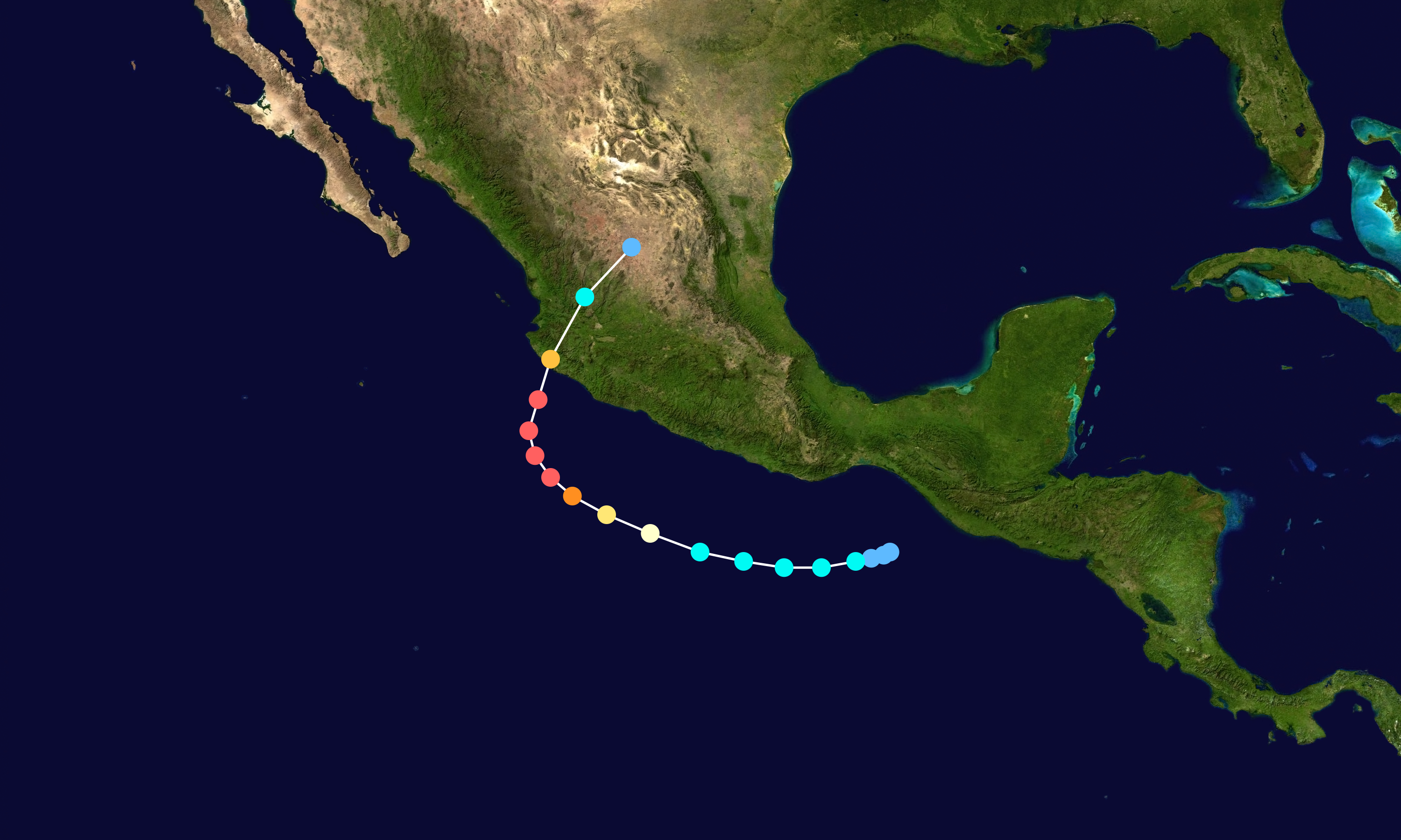 Track map of Hurricane Patricia of the 2015 Pacific hurricane season. The points show the location of the storm at 6-hour intervals. The colour represents the storm's maximum sustained wind speeds as classified in the Saffir–Simpson scale (see below), and the shape of the data points represent the nature of the storm, according to the legend below. Saffir–Simpson scale Tropical depression≤38 mph≤62 km/h Category 3111–129 mph178–208 km/h Tropical storm39–73 mph63–118 km/h Category 4130–156 mph209–251 km/h Category 174–95 mph119–153 km/h Category 5≥157 mph≥252 km/h Category 296–110 mph154–177 km/h Unknown Storm type Tropical cyclone Subtropical cyclone Extratropical cyclone / Remnant low / Tropical disturbance / Monsoon depression